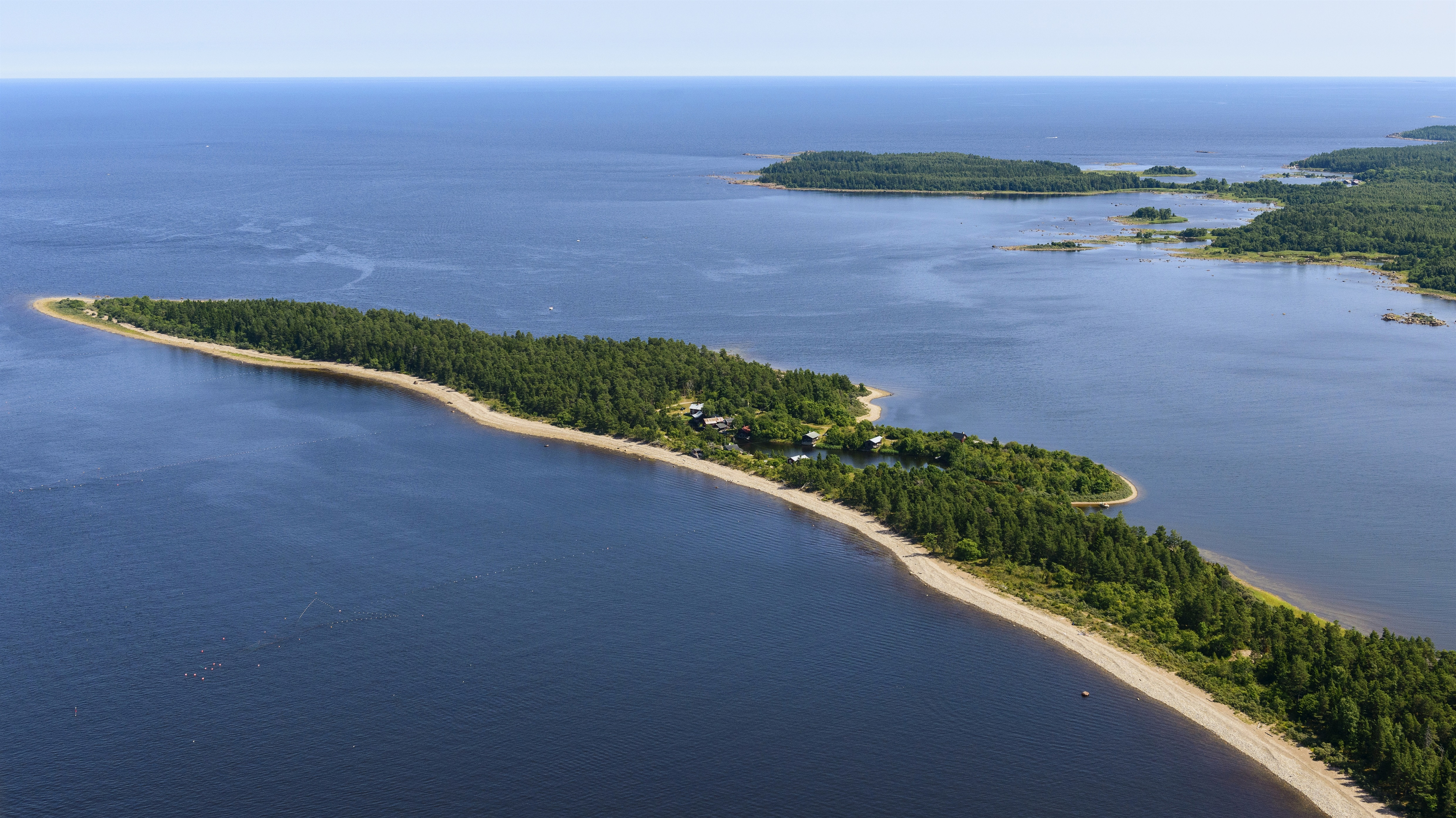 Aerial view of Billidden in northern Uppland, Sweden. The image shows an ice-age esker (elongate peninsula in foreground) that has been partiallz drowned and reworked by the Bothnian Sea